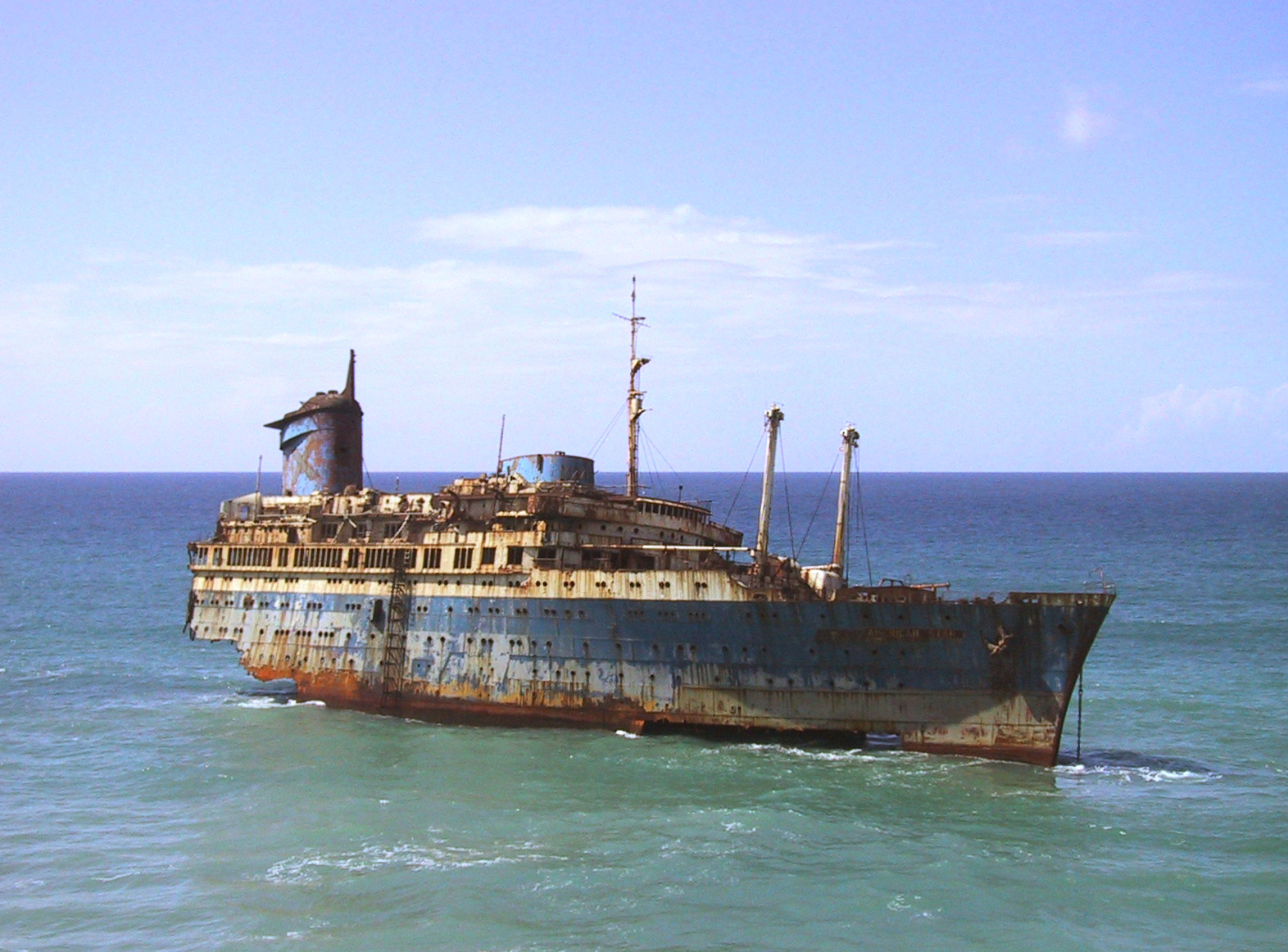 American Star, 2003, Fuerteventura Canary Islands